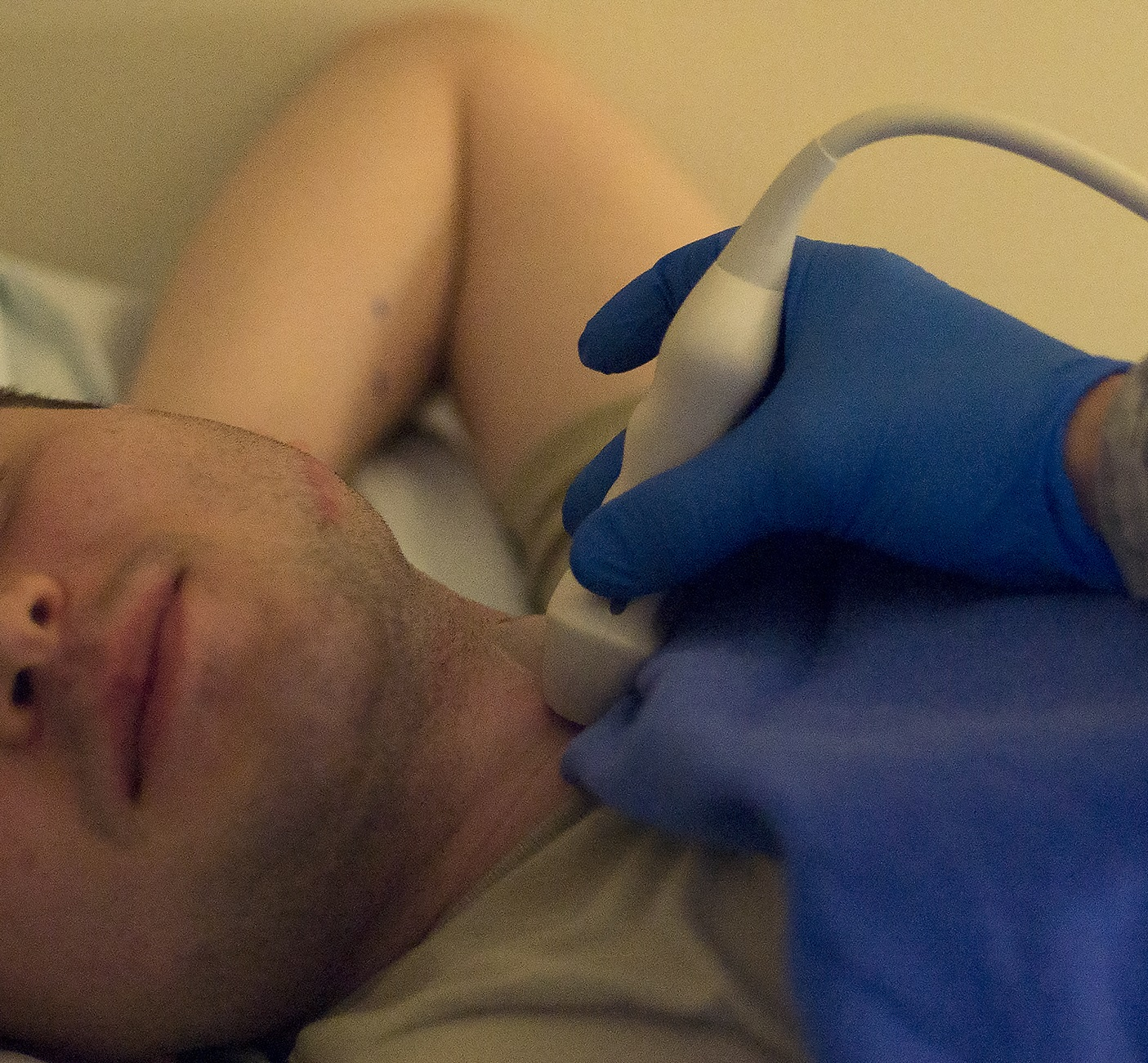 Original description: A patient has an ultrasonic transducer placed against their neck during a carotid arterial ultrasound at Yokota Air Base, Japan, May 11, 2016. The transducer works on similar principals to radar and sonar system, converting ultrasound waves into electrical signals. (U.S. Air Force photo by Senior Airman David C. Danford/Released)